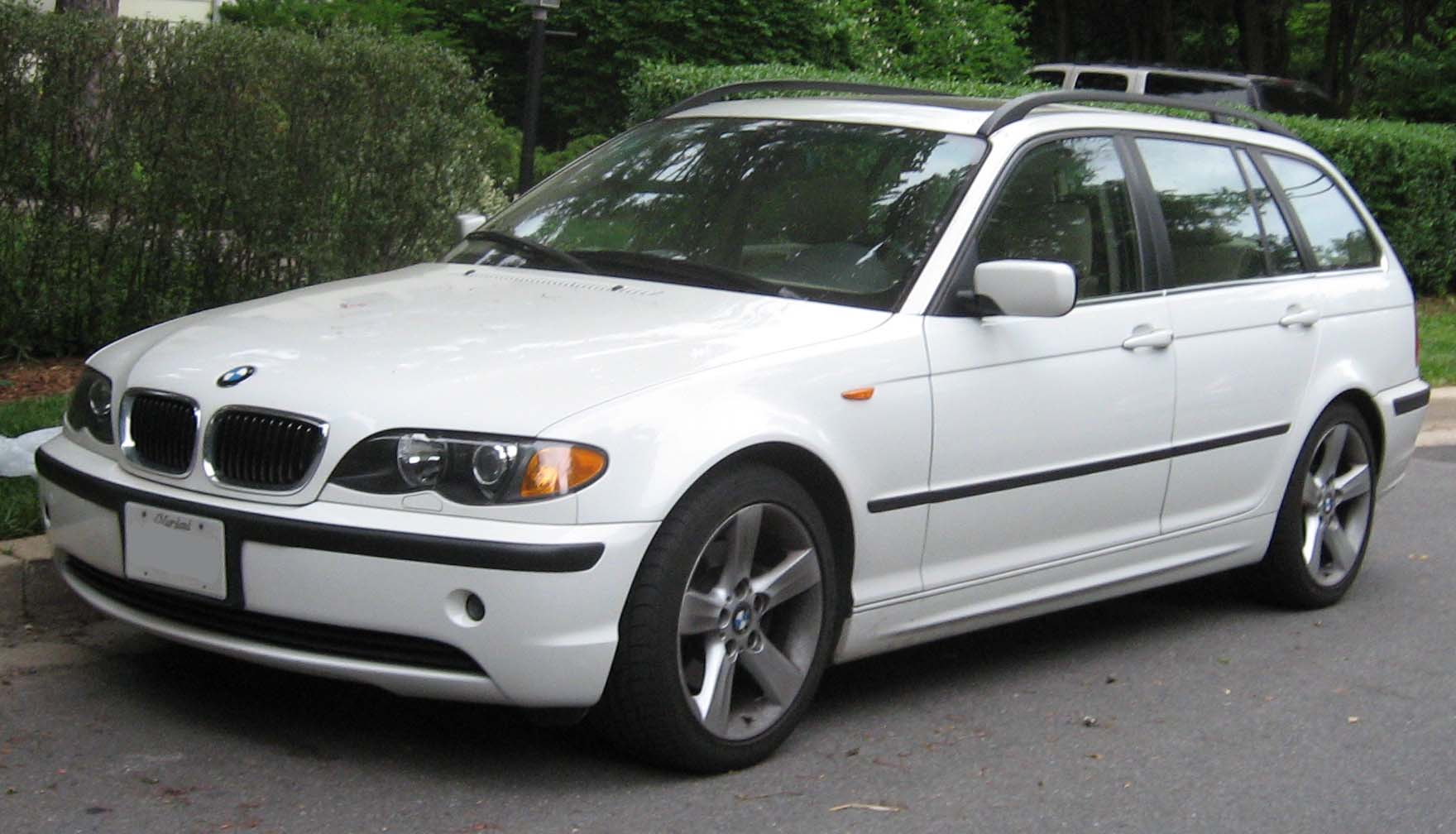 2002-2005 BMW 3-Series photographed in USA.